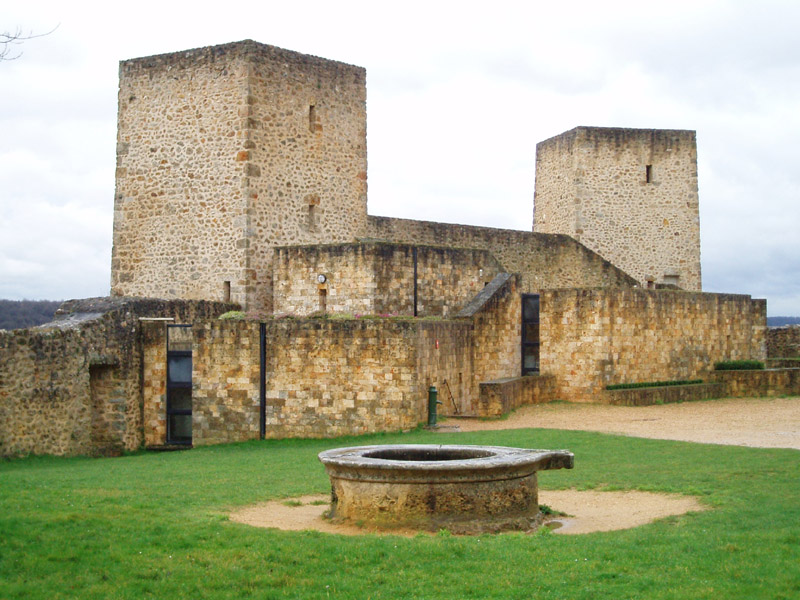 Chevreuse: The Château de le Madeleine, and the House of the Natural Park of the Vallée de Chevreuse